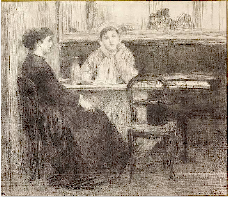 Deux femmes dont une pensive, assises à la table d'un café, dessin, signed on the down right corner. Musée d'Orsay (Paris)